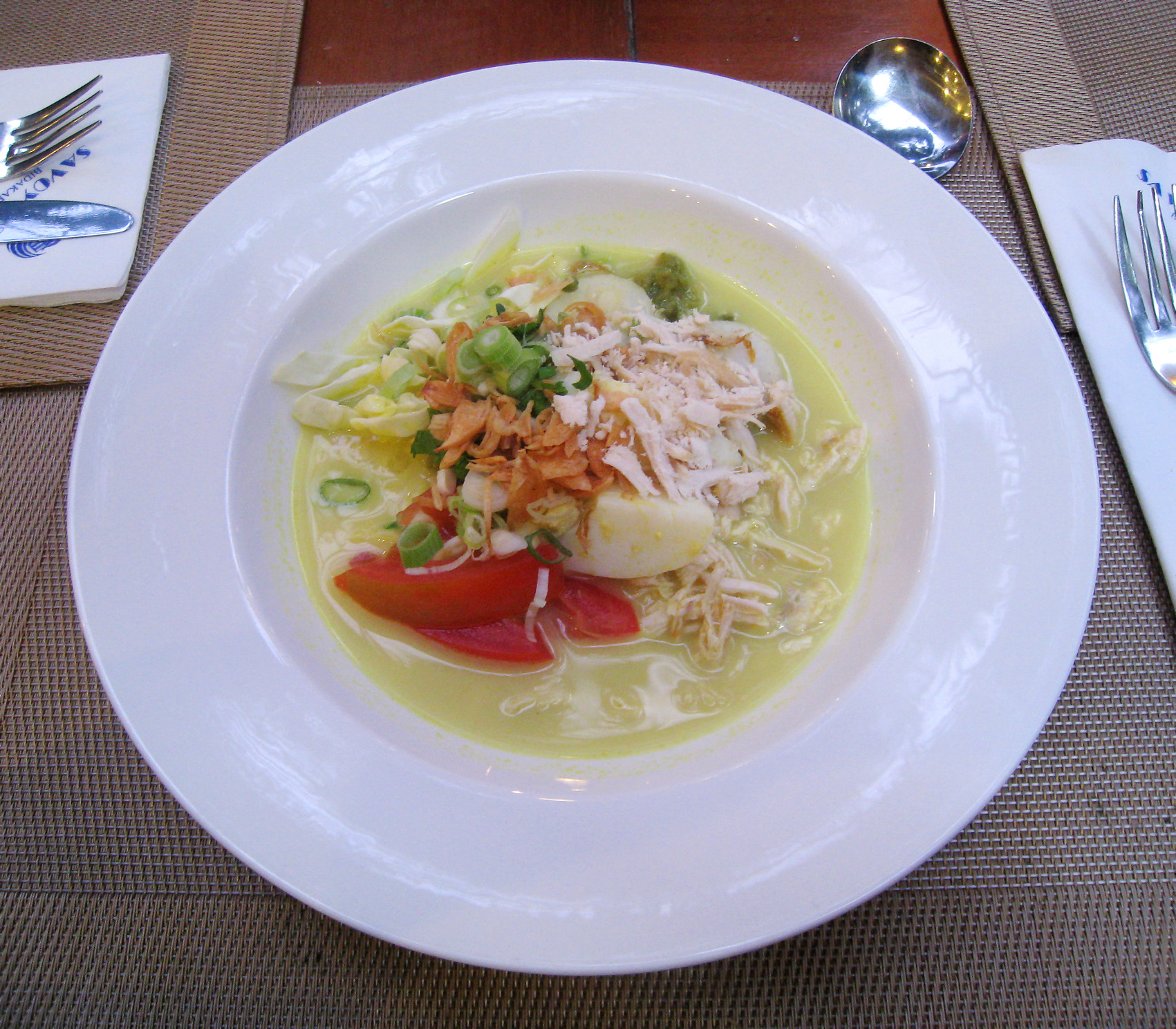 Soto Ayam (chicken soto) a breakfast dish in Savoy Homann Hotel, Bandung. Chicken in spicy yellow turmeric soup, with rice vermicelli, egg, lontong, vegetables, tomato, leeks and fried shallot.